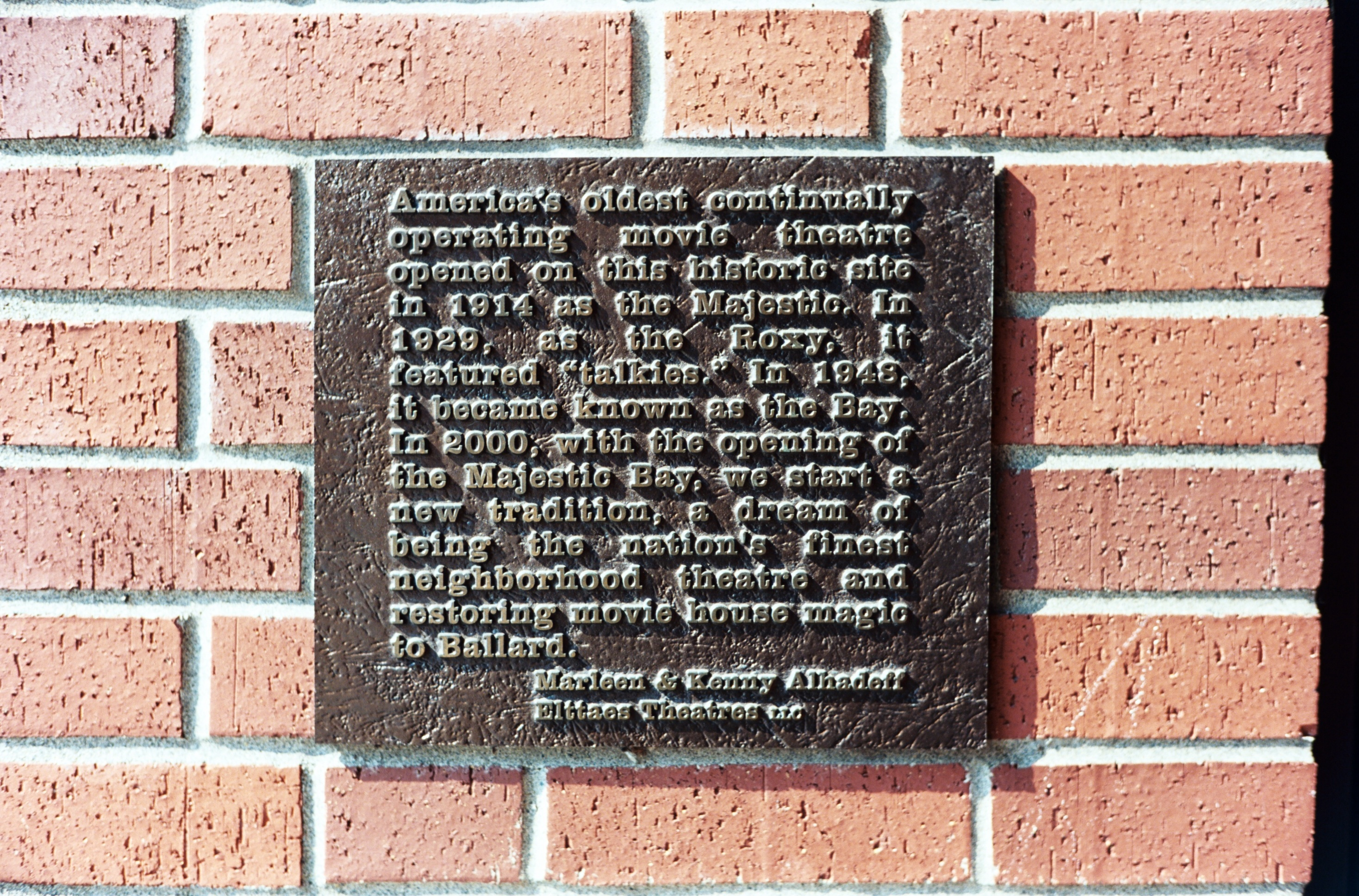 Plaque at The Majestic Bay cinema, Ballard, Seattle, Washington.